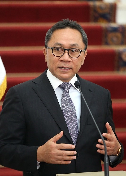 Zulkifli Hasan